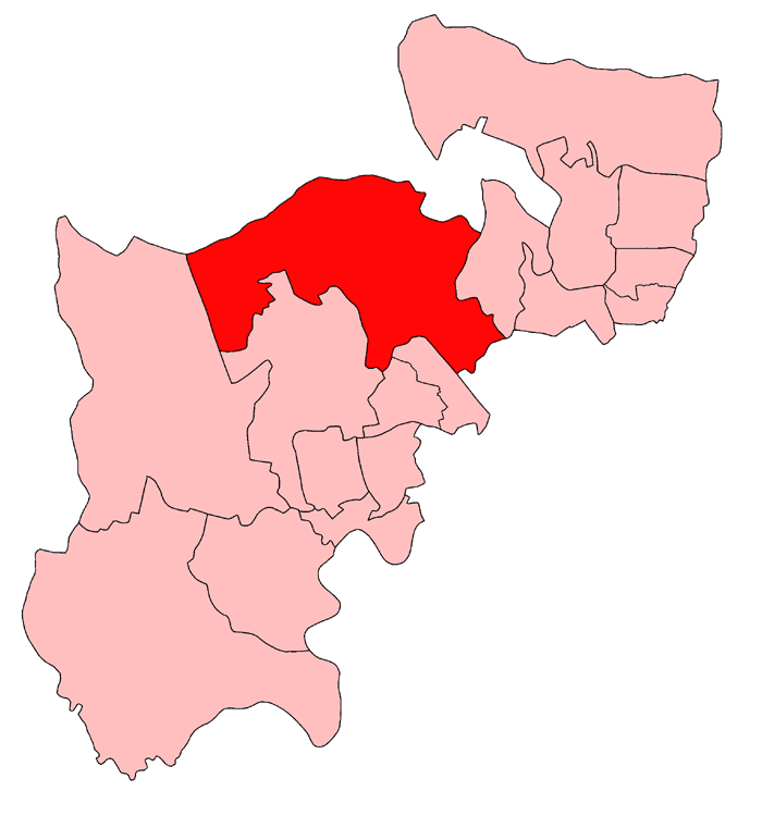 A map of Hendon constituency within Middlesex, as it existed from 1918 to 1945.